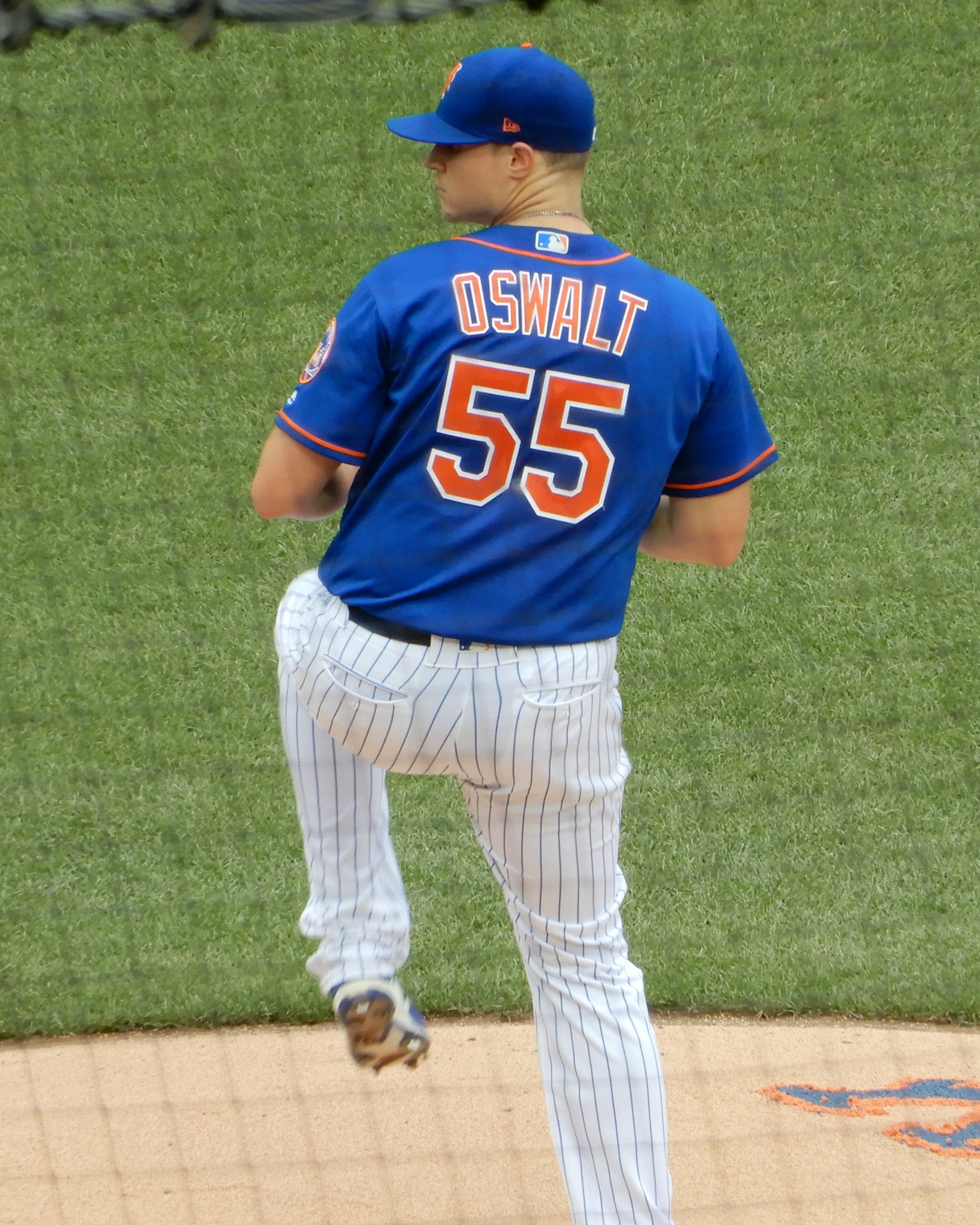 Corey Oswalt